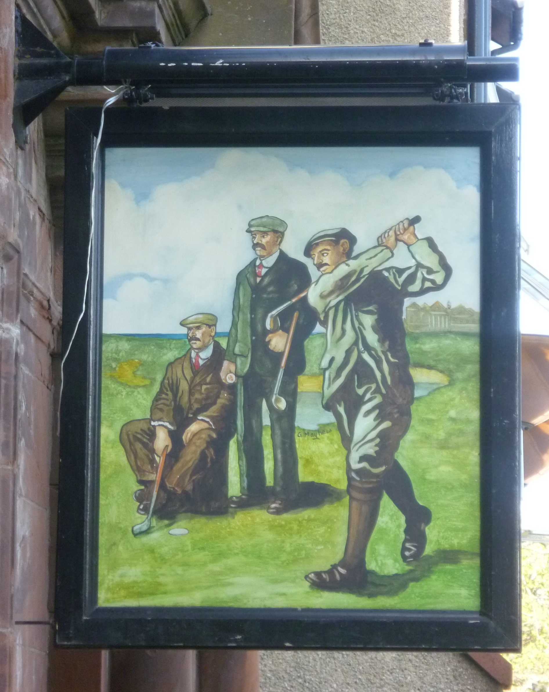 Pub sign of the Golf Tavern on Bruntsfield Links, one of the oldest links in Scotland. It depicts (l. to r.) the 'Great Triumvirate' of J. H. Taylor, James Braid and Harry Vardon.